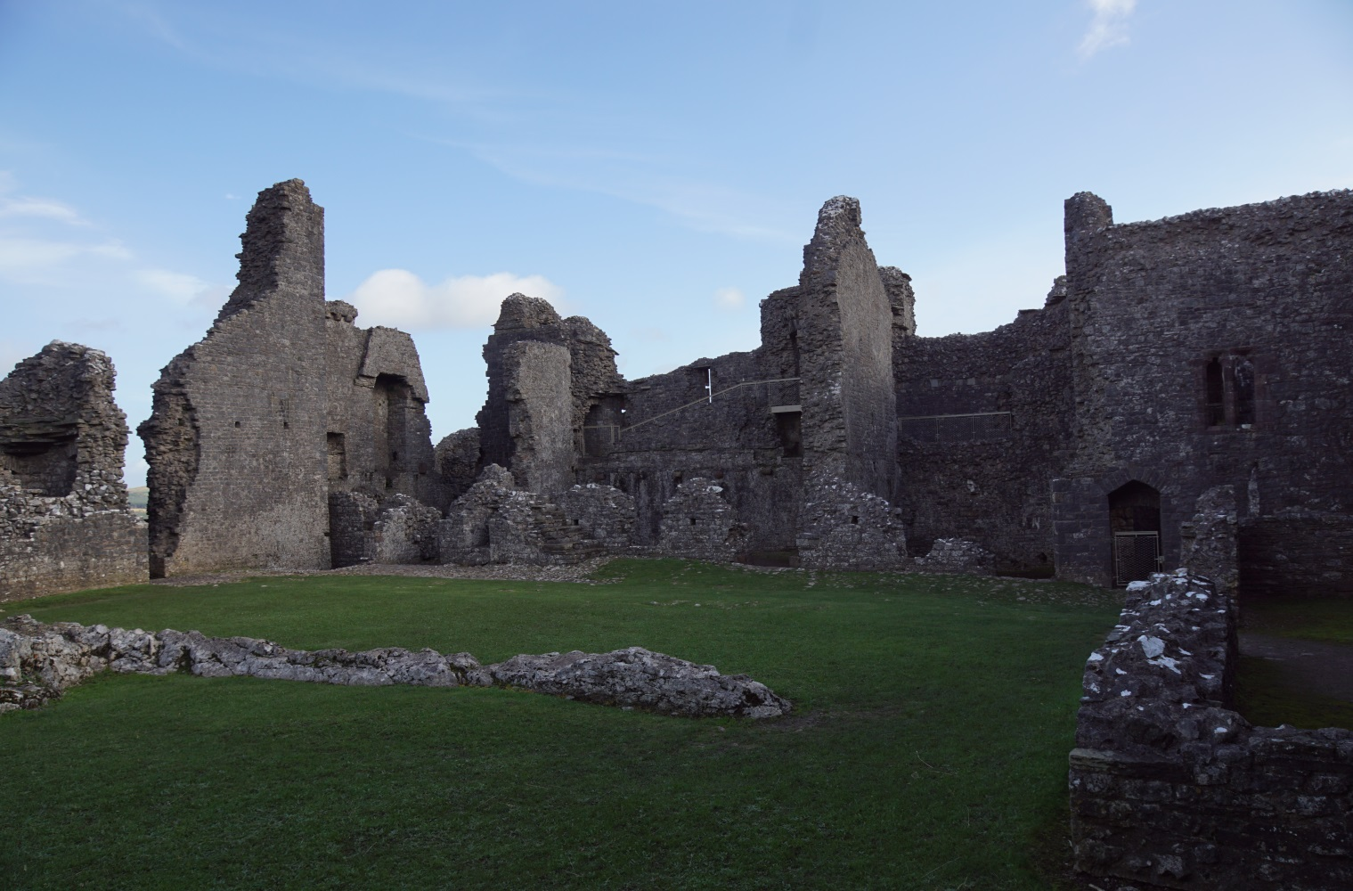 Carreg Cennen Castle, Wales. Inner ward as seen from the southwest corner.